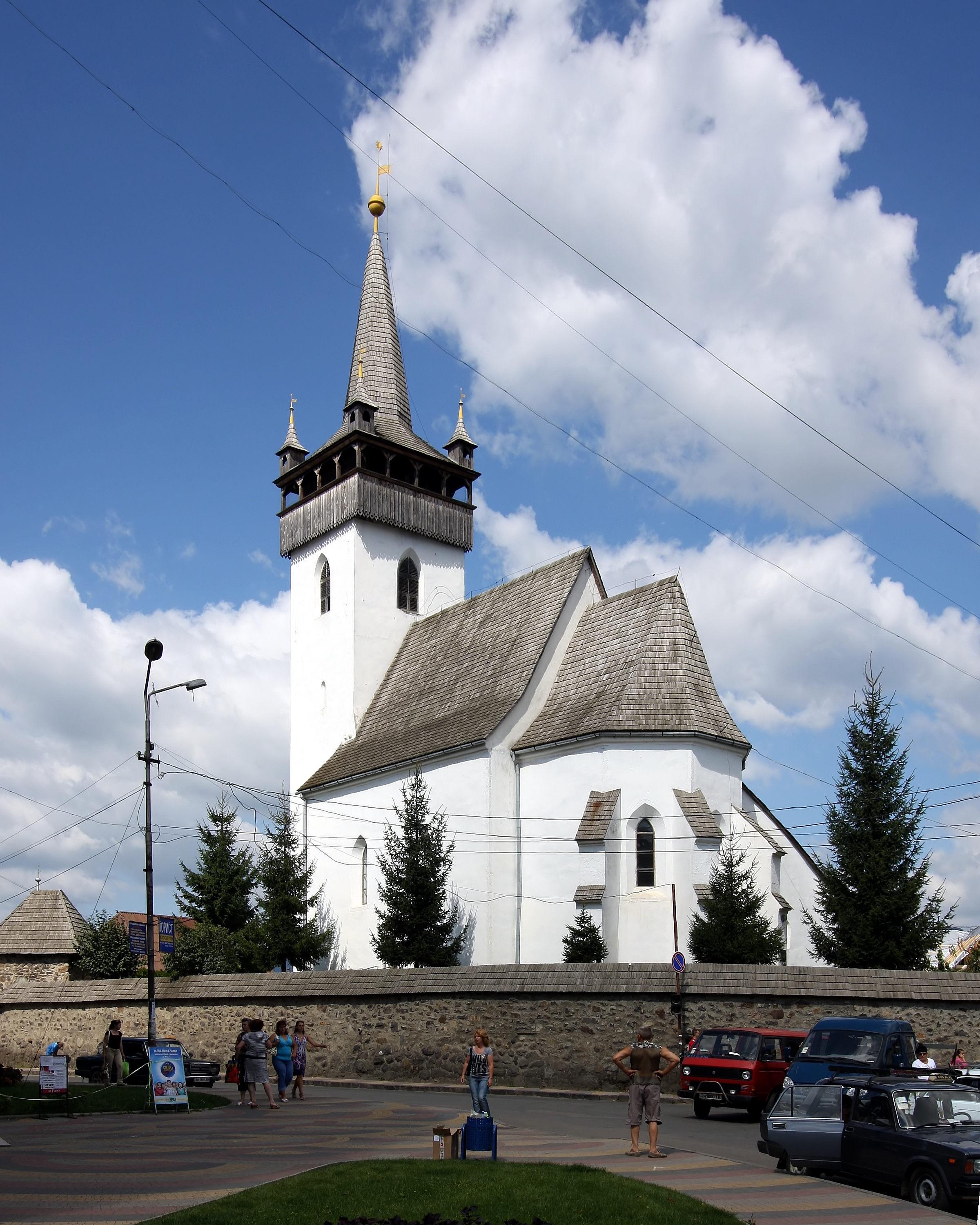 Church in the centre of Khust, Khust Raion, Zakarpattia Oblast, Ukraine